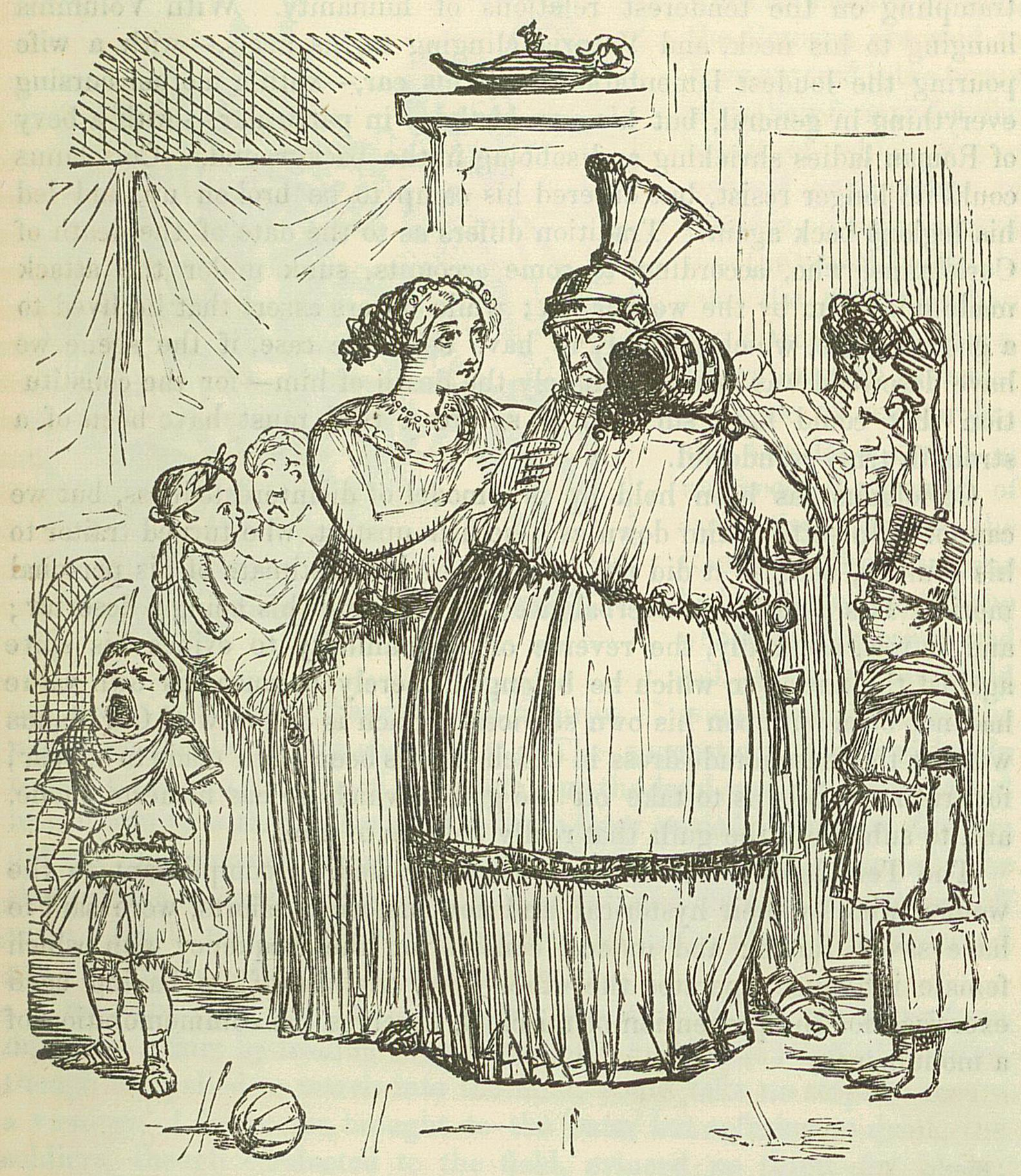 Coriolanus parting from his Wife and Family, drawing by John Leech, from: The Comic History of Rome by Gilbert Abbott A Beckett. Bradbury, Evans & Co, London, 1850s